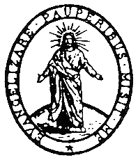 Seal of the Vincentian Society, Congregation of the Mission, from a book published in ca. 1887, titlepage